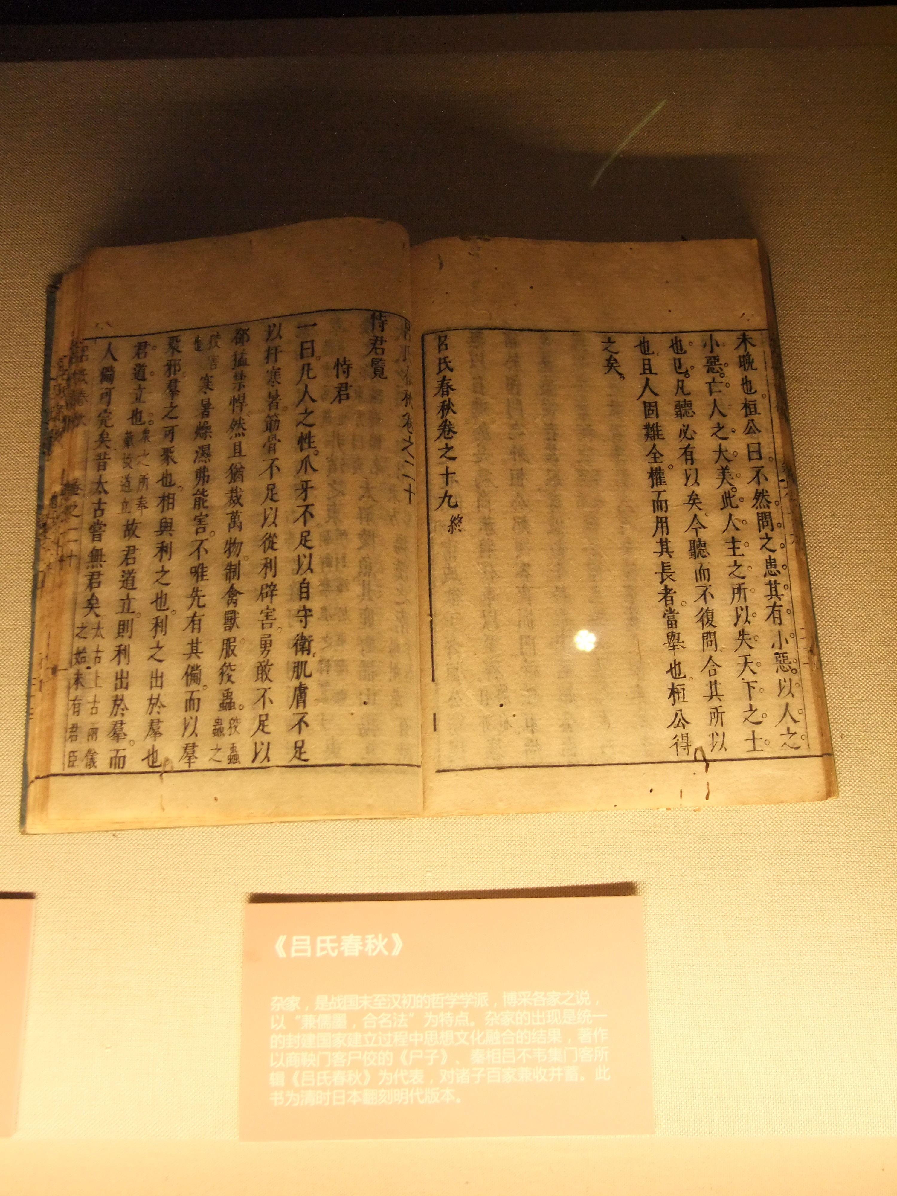 The book Lüshi Chunqiu, also known as Master Lü's Spring and Autumn Annals, it was published under the Edo period (1603-1868) in Japan. It is exhibited at the Hunan Provincial Museum.